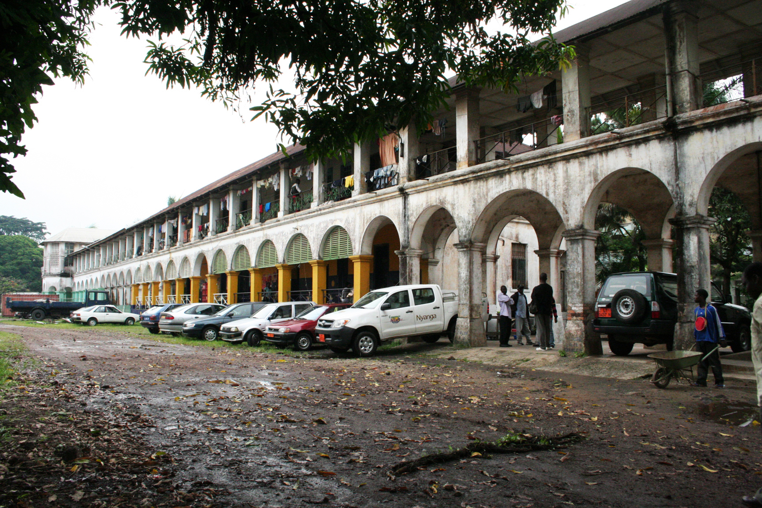 Old general hospital in Douala, Cameroon.